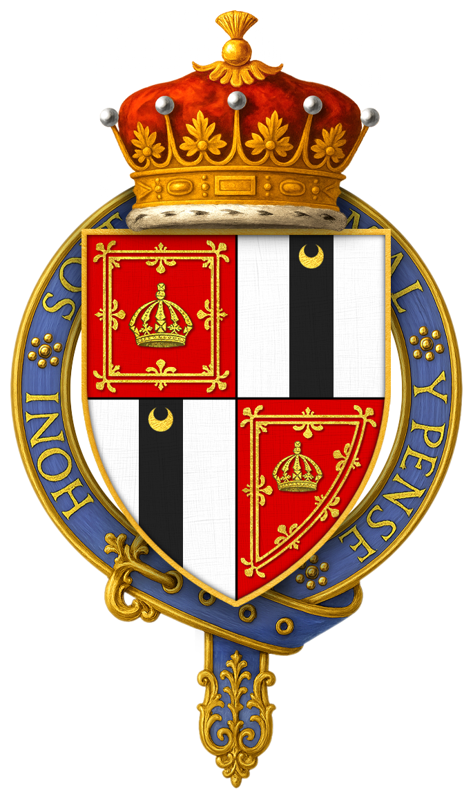 Coat of arms Sir Thomas Erskine, 1st Earl of Kellie, KG